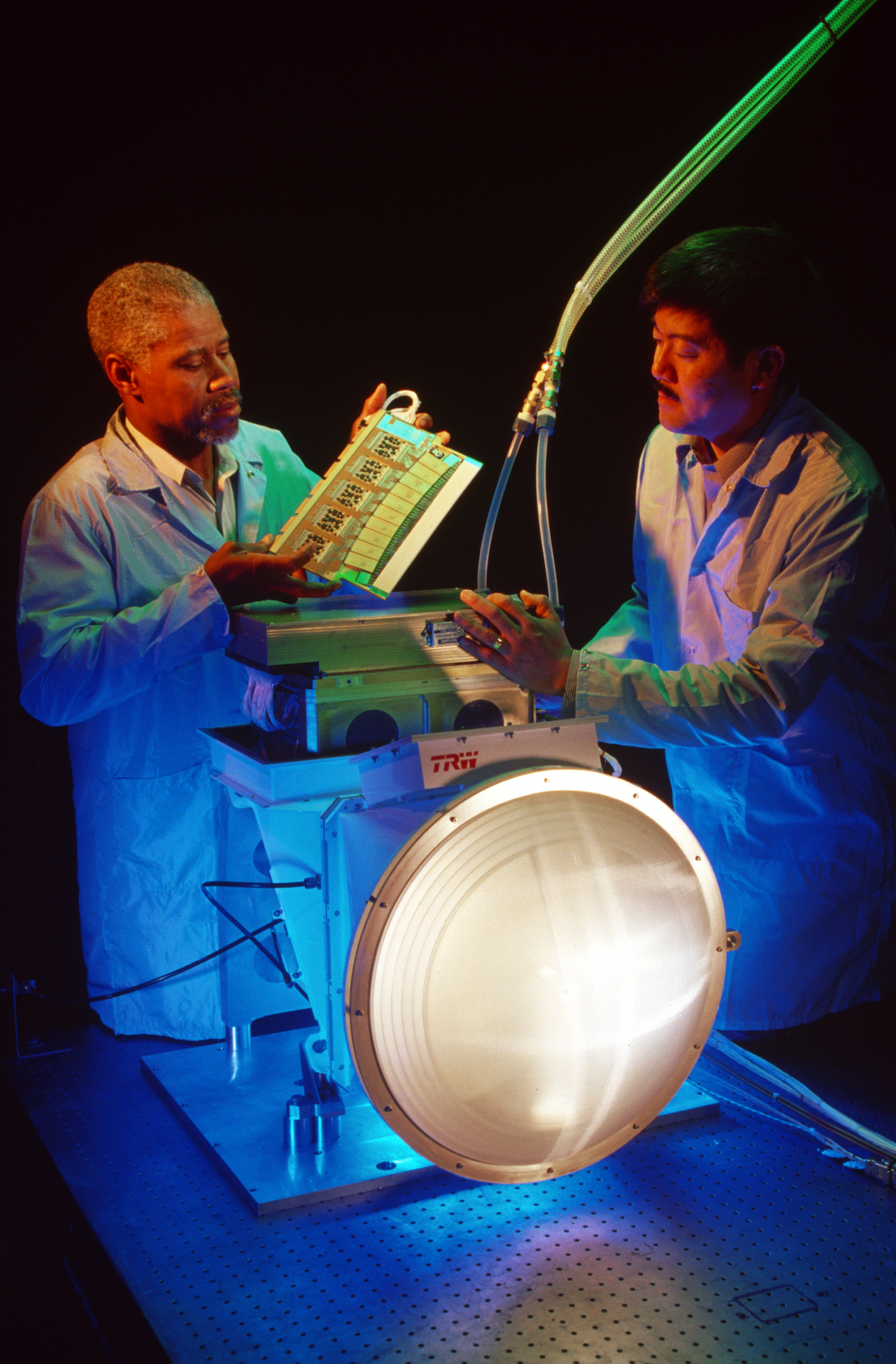 Engineers at the TRW Inc. plant in Redondo Beach, California, inspect the Passive Millimeter Wave Camera, a weather-piercing military camera designed to see through fog, clouds, smoke and dust. Operating in the W band millimeter wave portion of the electromagnetic spectrum, the camera creates visual-like video images of objects, people, runways, obstacles and the horizon. A demonstration camera (shown in photo) has been completed and is scheduled for checkout tests and flight demonstration. Engineer (left) holds a compact, lightweight circuit board containing 40 complete radiometers, including antenna, monolithic millimeter wave integrated circuit (MMIC) receivers and signal processing and readout electronics that forms the basis for the camera's 1040-element focal plane array.